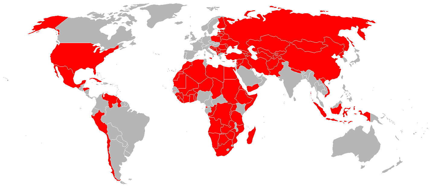 RPG-7 world operators